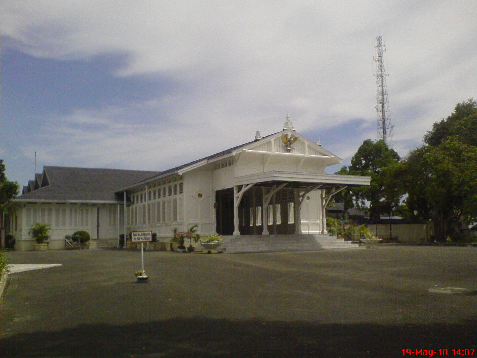 Aceh governor's house